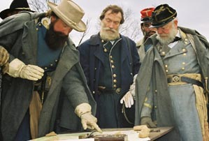 "I recently made my movie debut, playing a cameo role as General Paul J. Semmes in the Warner Bros. film, "Gods and Generals." At the invitation of director Ronald Maxwell, I was in this scene with Generals A.P. Hill (Patrick Gorman) and James Longstreet (Bruce Boxleitner)."